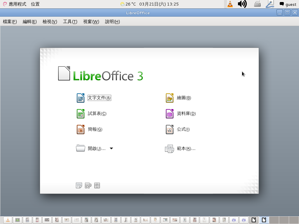 screenshot of LibreOffice 3.5.4.2（組建 ID： 350m1(Build:2)） on Debian GNU/Linux 7.3 (wheezy) amd64 with GNOME 3.4.2 with theme Clearlooks-Phenix